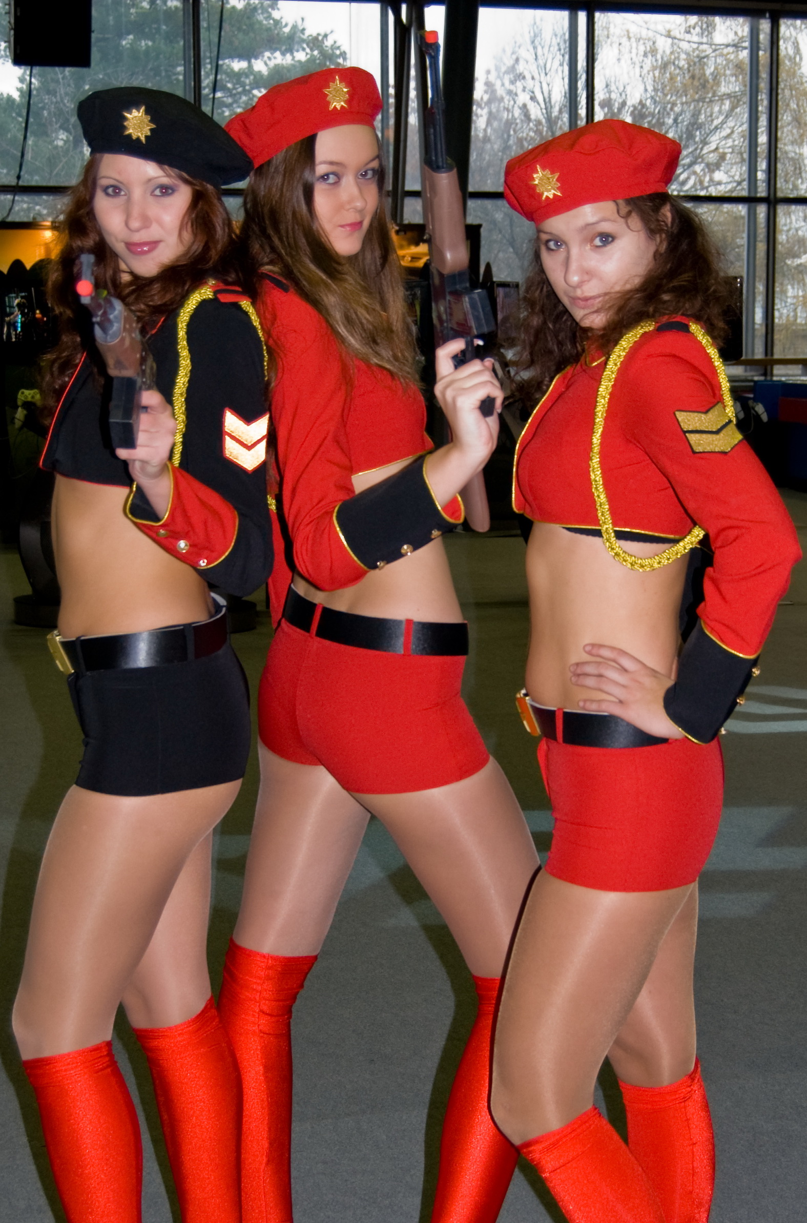 Red Alert 3 girls on Igromir 2008